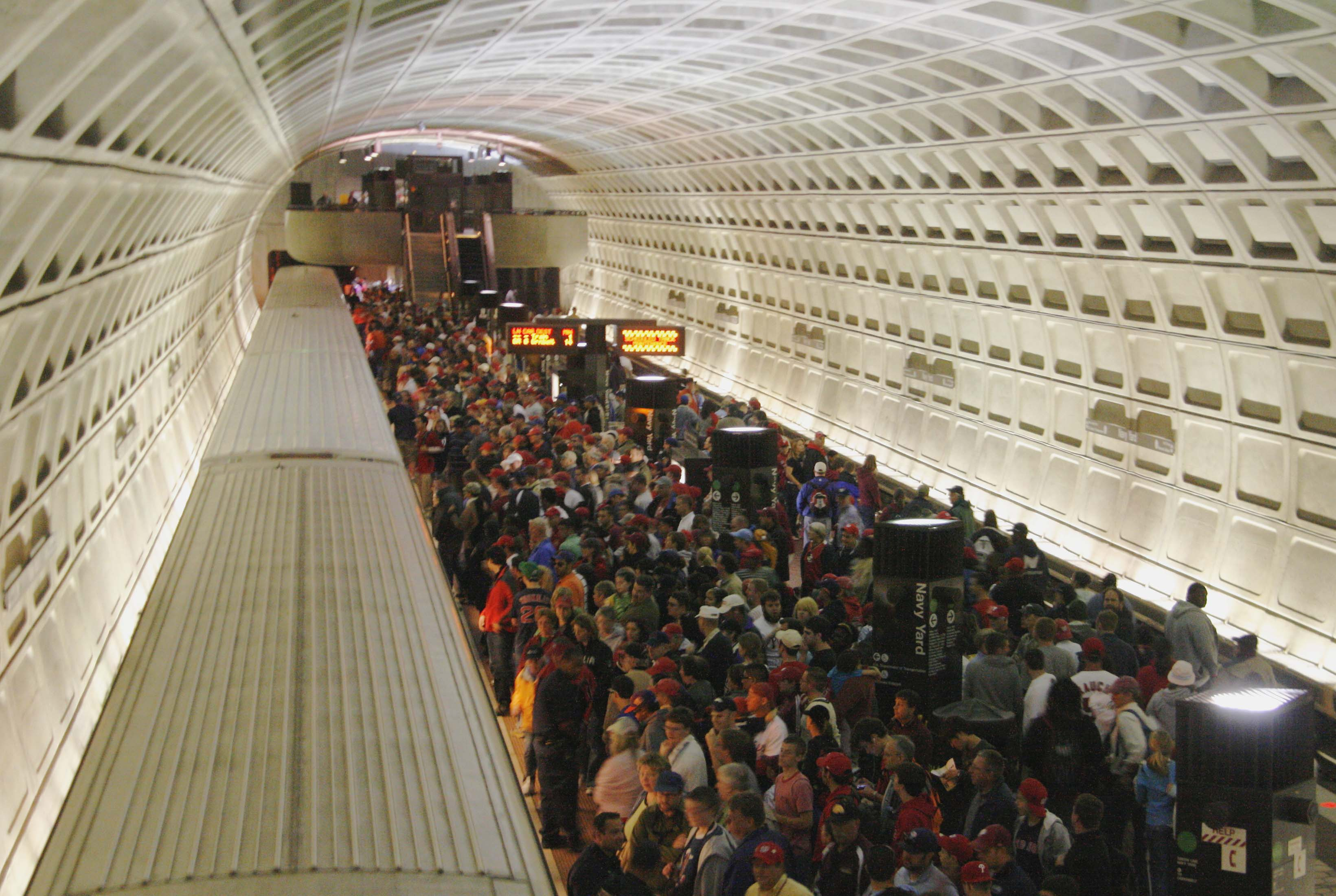 The Navy Yard Metro station, located in Washington, D.C., crowded after a Nationals baseball game at nearby Nationals Park.